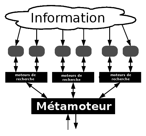 Meta search engine